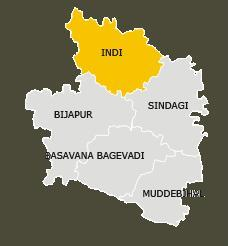 Indi bijapur